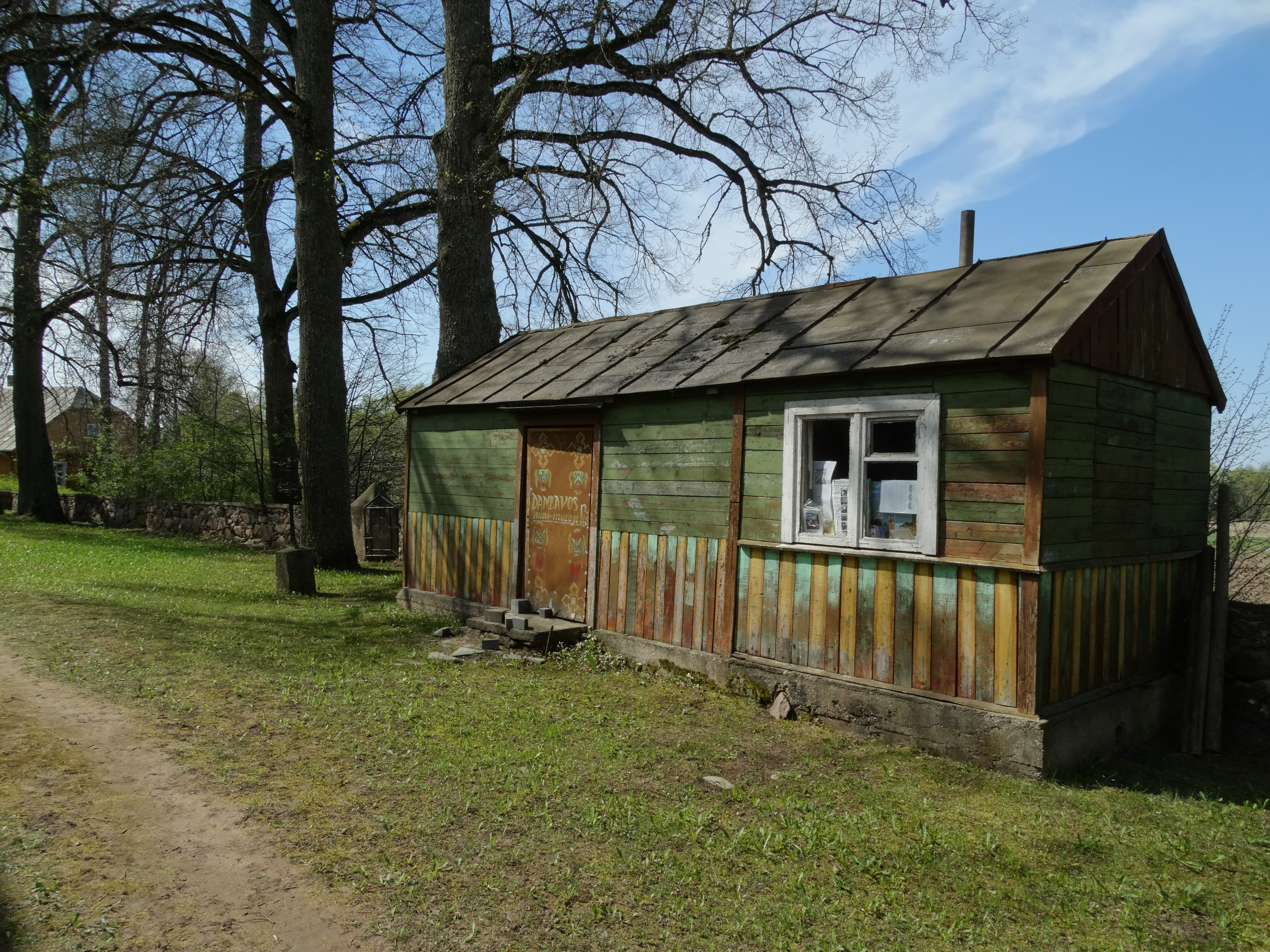 Dambava museum, Radviliškis District, Lithuania